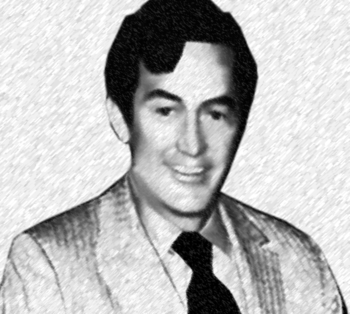 Kirk Alyn (american actor) draw